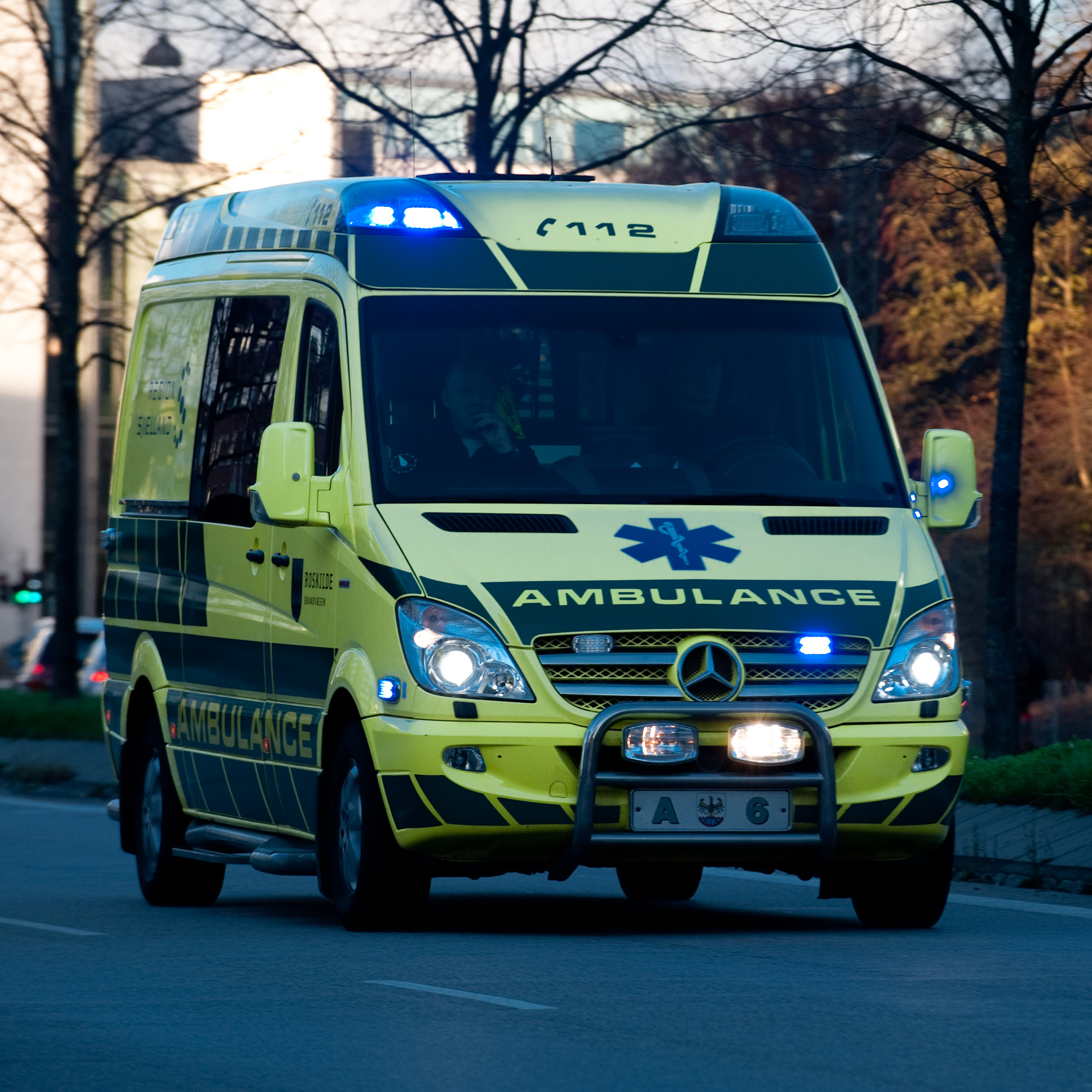 Danish Ambulance from Region Sjælland in the new design introduced in late 2009